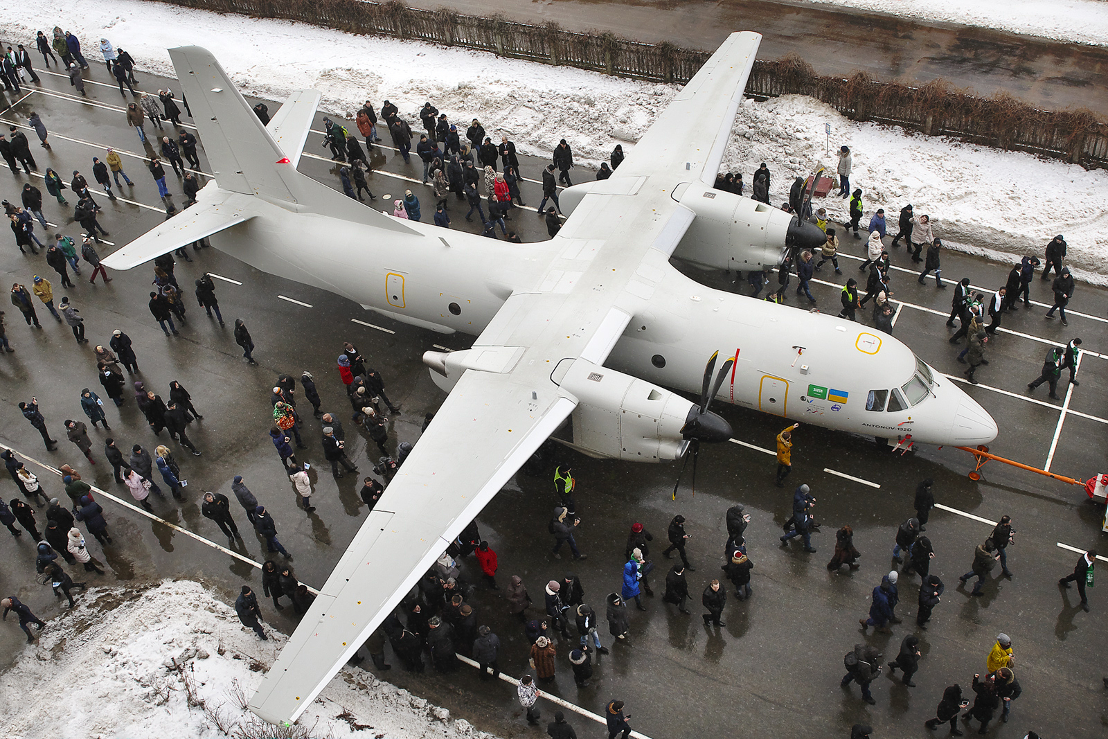 Overhead view of the Antonov An-132D